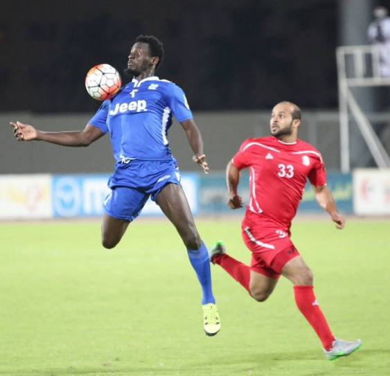 Mamadou Soro Nanga in action against Muscat Club's Jaber Al-Owaisi. 22 January 2016 Salalah Sports Complex, Auqad, Salalah Photographer email id